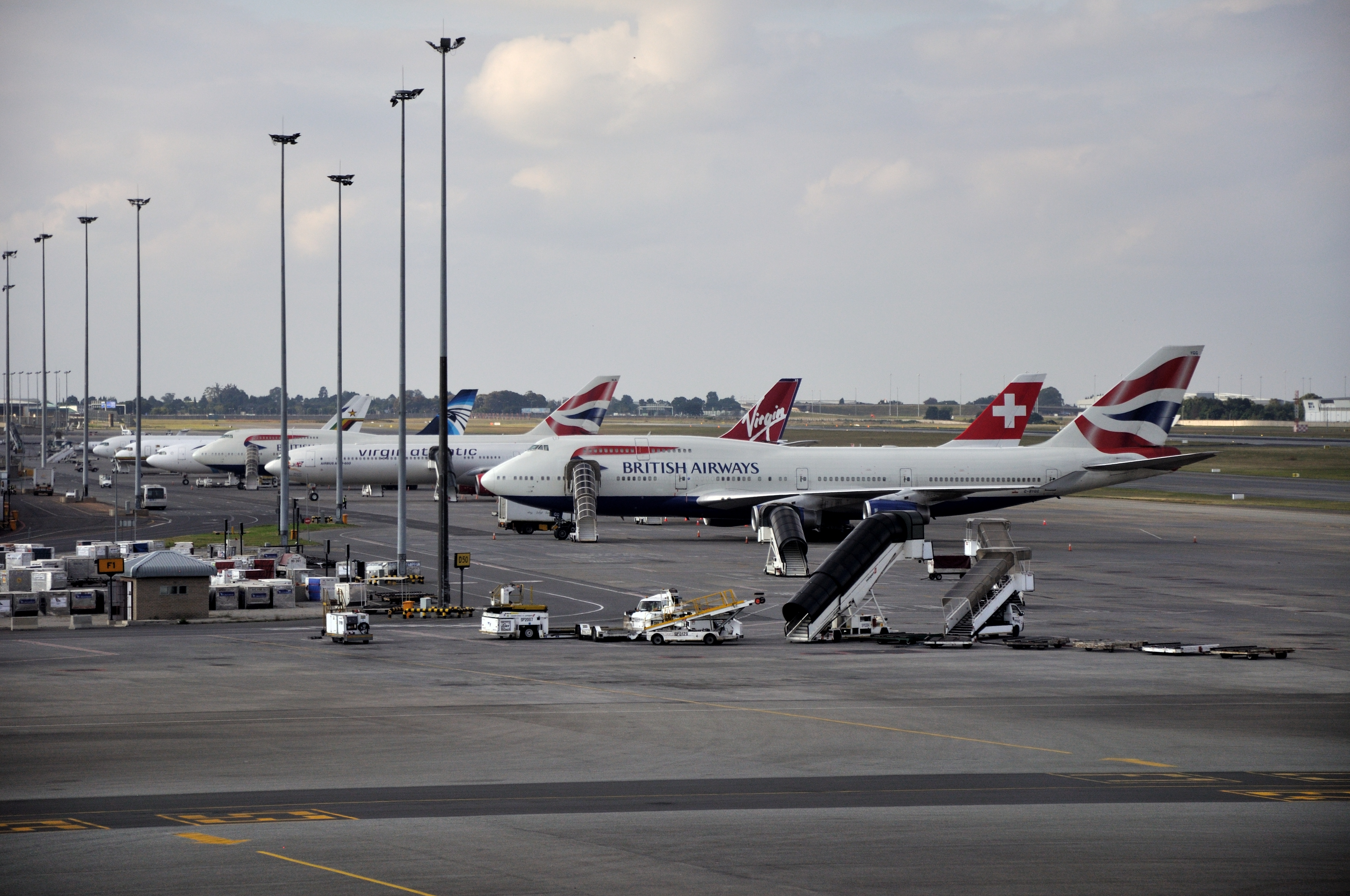 South Africa, spotting at O.R. Tambo International Airport